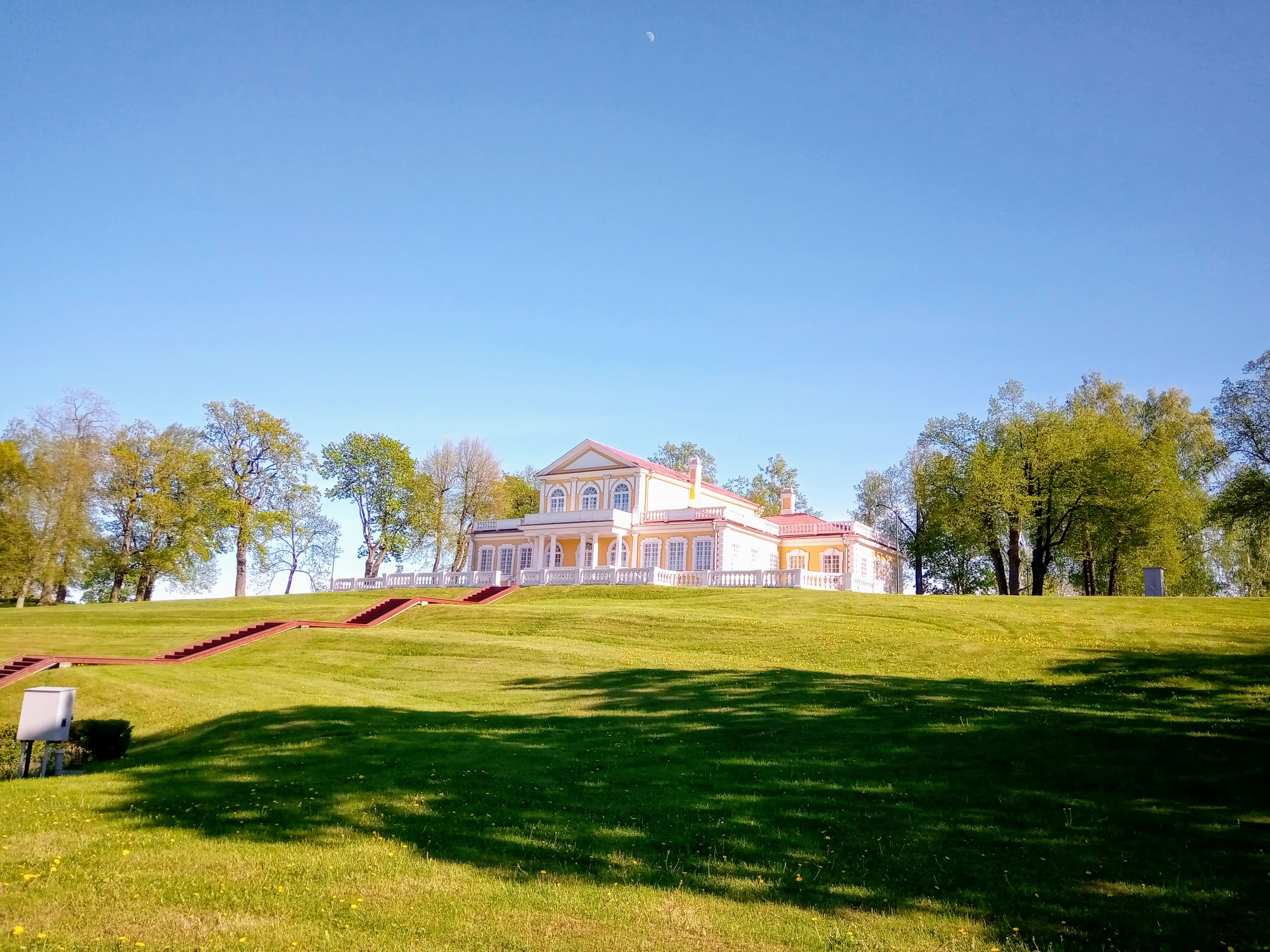 Strelna Road Palace Peter I May 2020